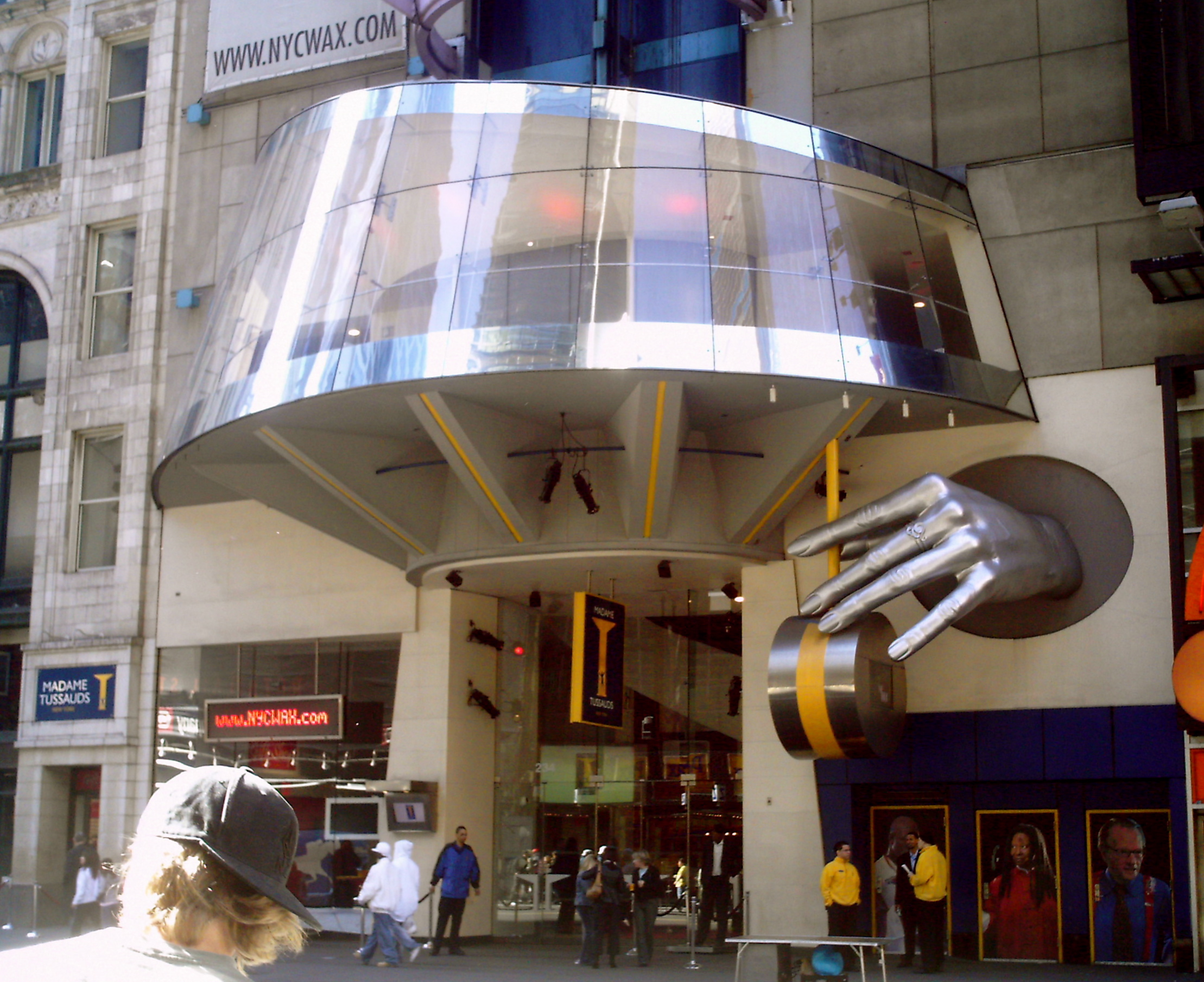 Madame Tussauds in New York City, March 2006.